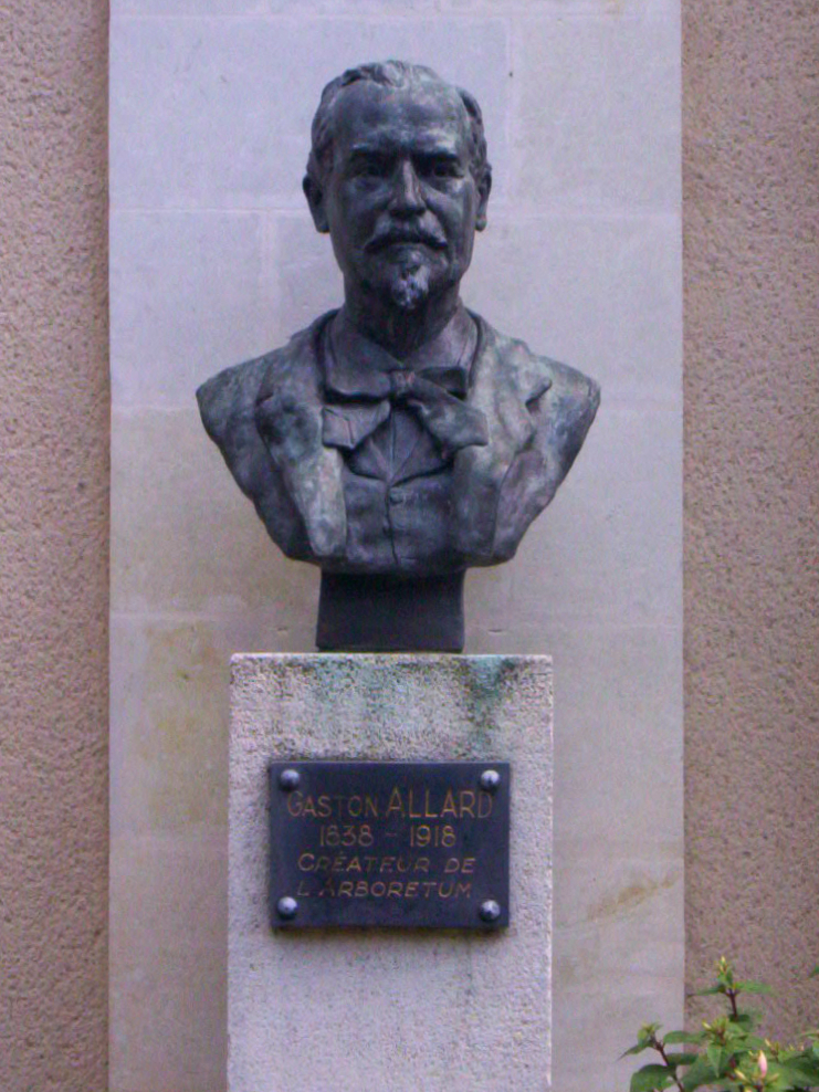 Bust of Gaston Allard (1838-1918) made by H. Seguin, visible in the Arboretum of Angers, Maine-et-Loire, Pays de la Loire, France.